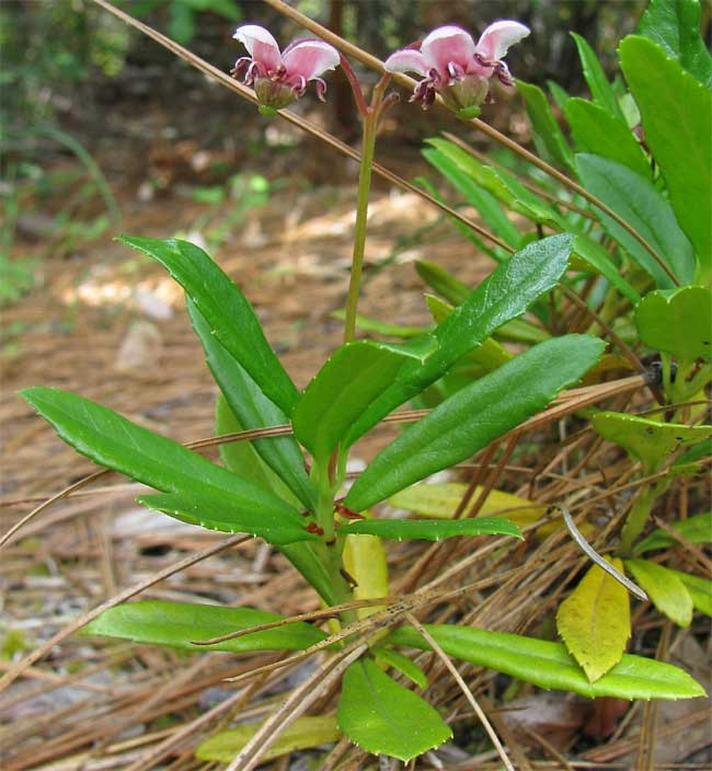 A Menzies' Wintergreen Chimaphila menziesii in the Siskiyou Mountains west of Grants Pass, Oregon, USA. It's actually in the Heath / Azalea family.